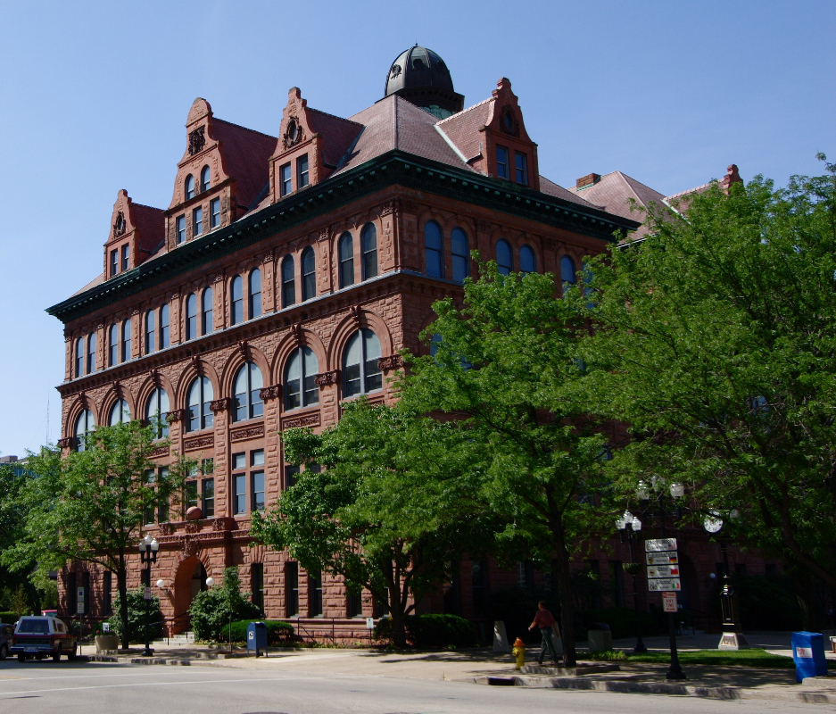 Front of Peoria city hall (419 Fulton St.), Peoria, Illinois, 2006. Author: Robert Lawon (self). Photographed from corner of Fulton St. and Madison St.